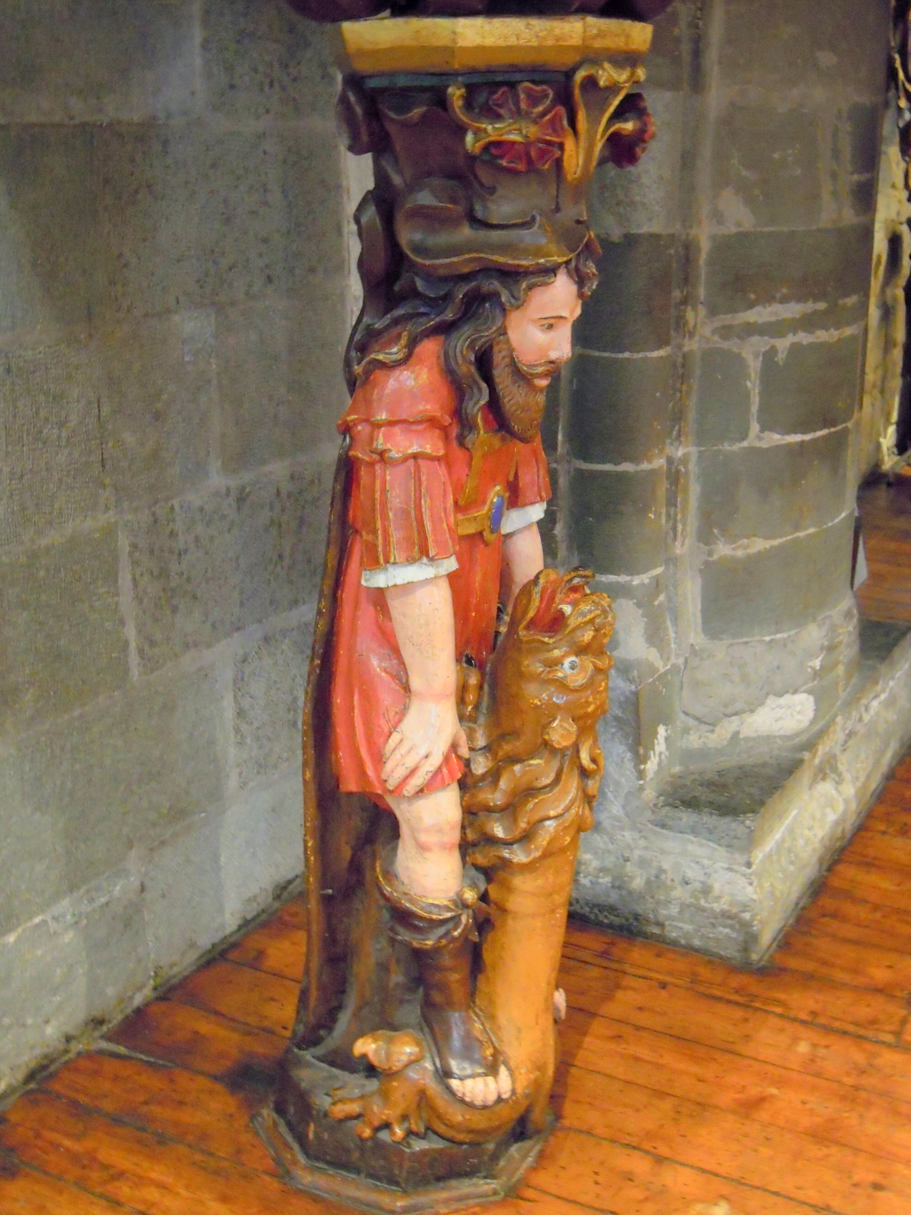 Samson killing the lion. Made in 1658 by Anders Lauritsen Smith. Stavanger Cathedral under the pulpit.